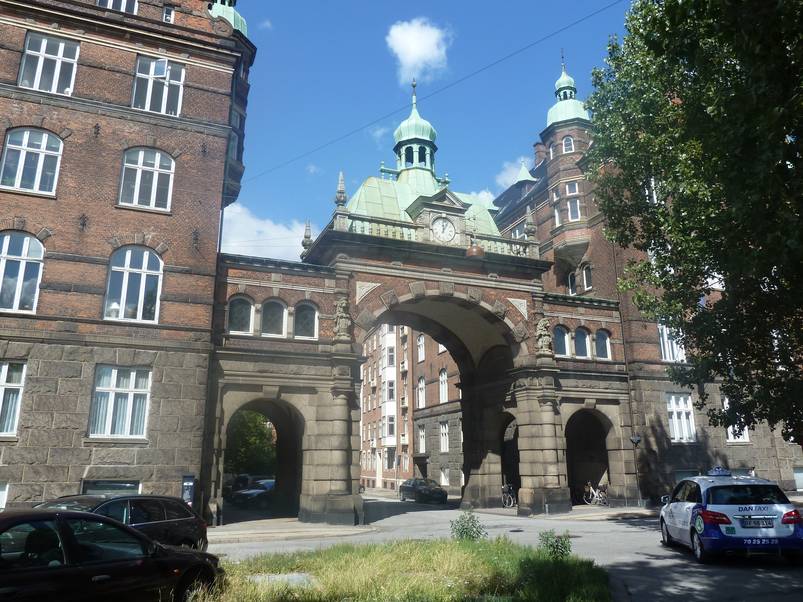 Gate to the street Mandalsgade in Østerbro in Copenhagen.